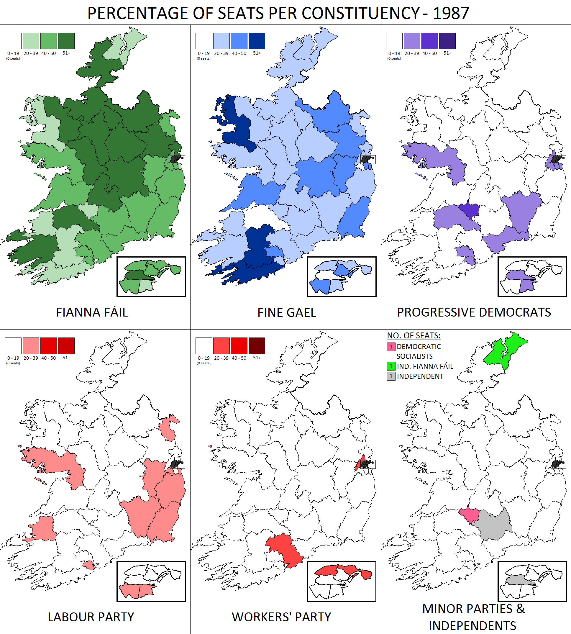 Graphical representation of the 1987 Irish general election results. Created by myself using data from Wikipedia and literary sources.